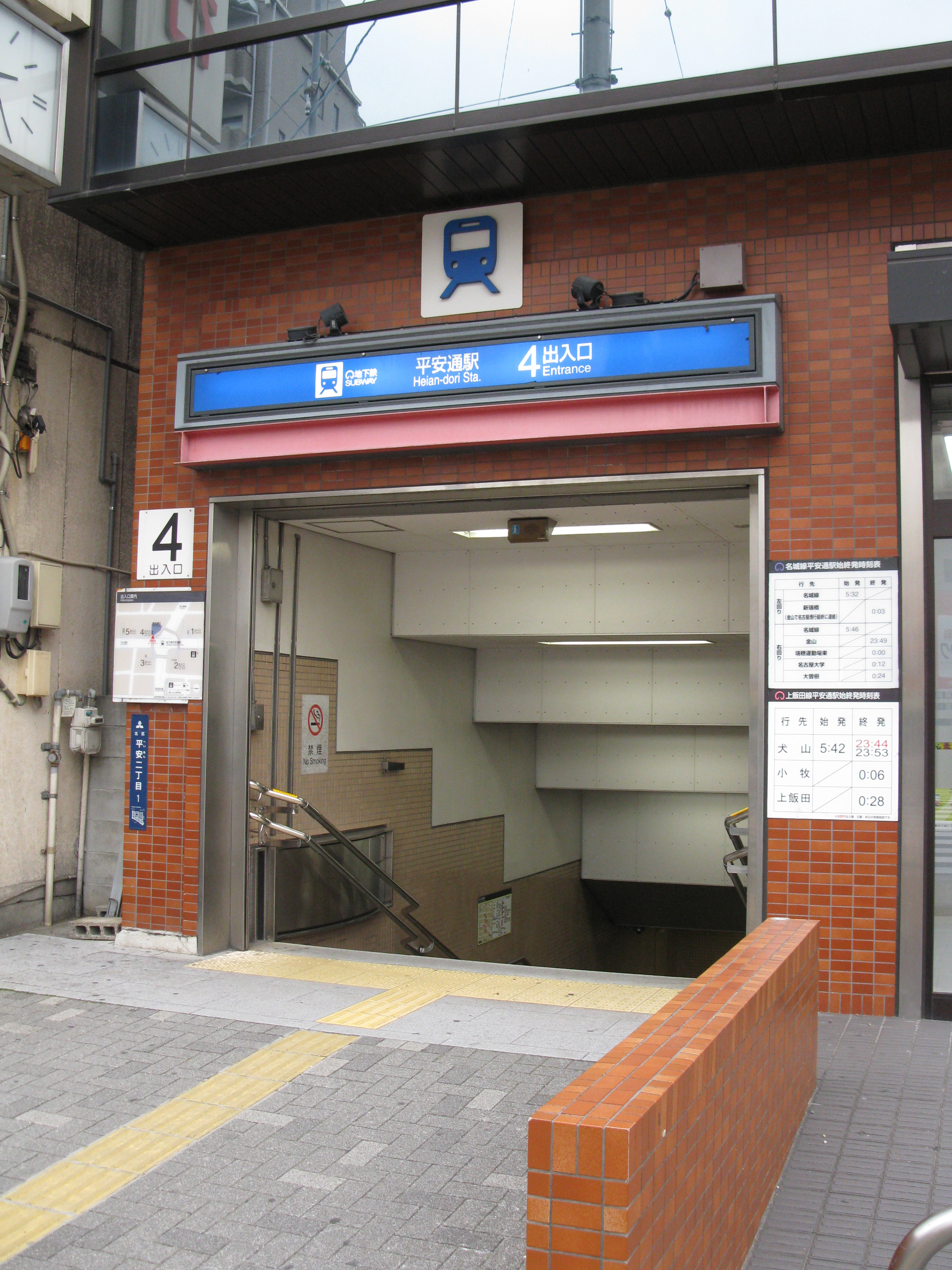 Heian-dōri Station no.4 entrance (Nagoya Municipal Subway Meijō Line and Kamiiida Line)